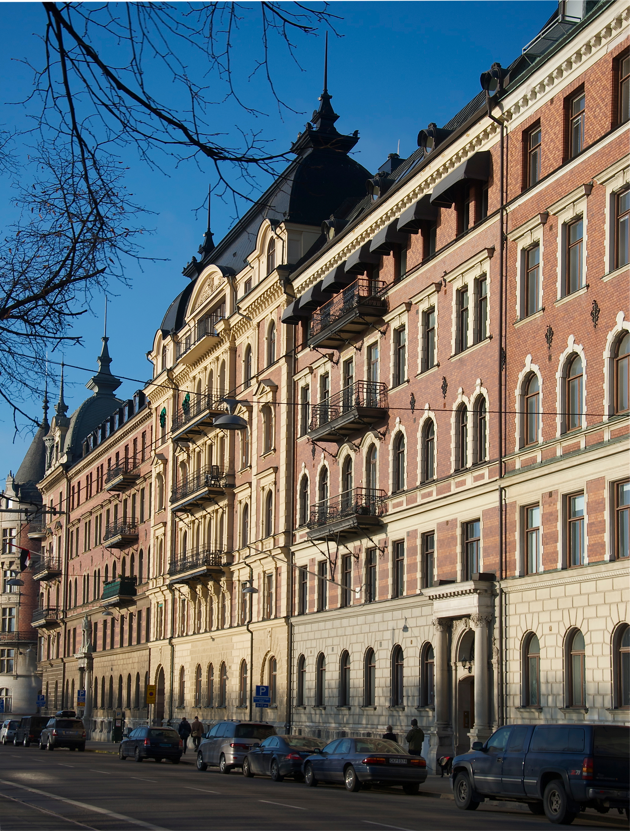 Strandvägen 35 (left), 37 and 39 (right) Strandvägen 35 built 1890-92, architect Johan Laurentz Strandvägen 37 built 1889-91, architect Johan Laurentz Strandvägen 39 built 1890-91, architect Johan Laurentz